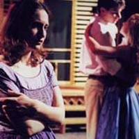 Image from the show Picnic at Jacksonville University 2001